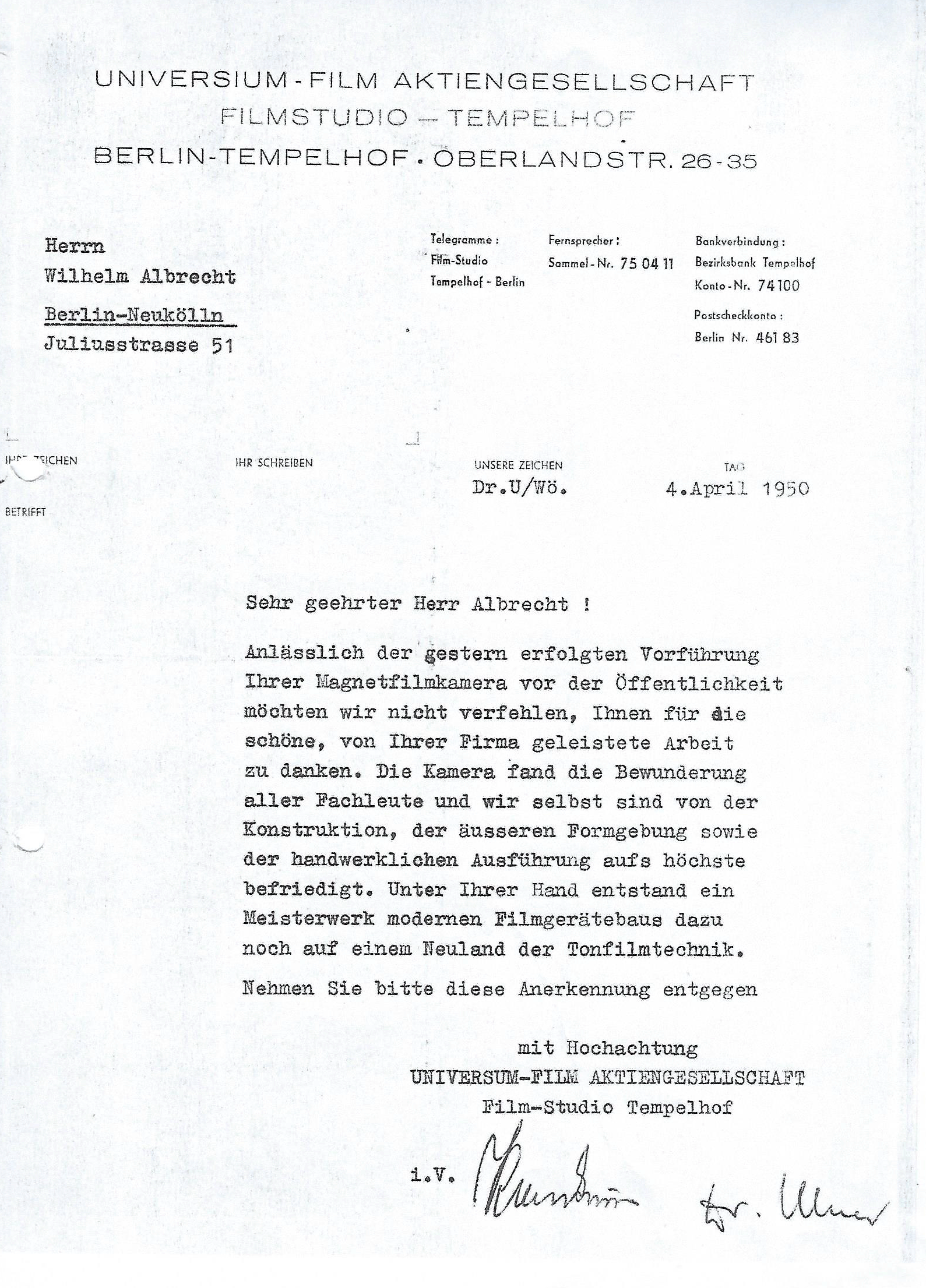 Ufa Congratulations